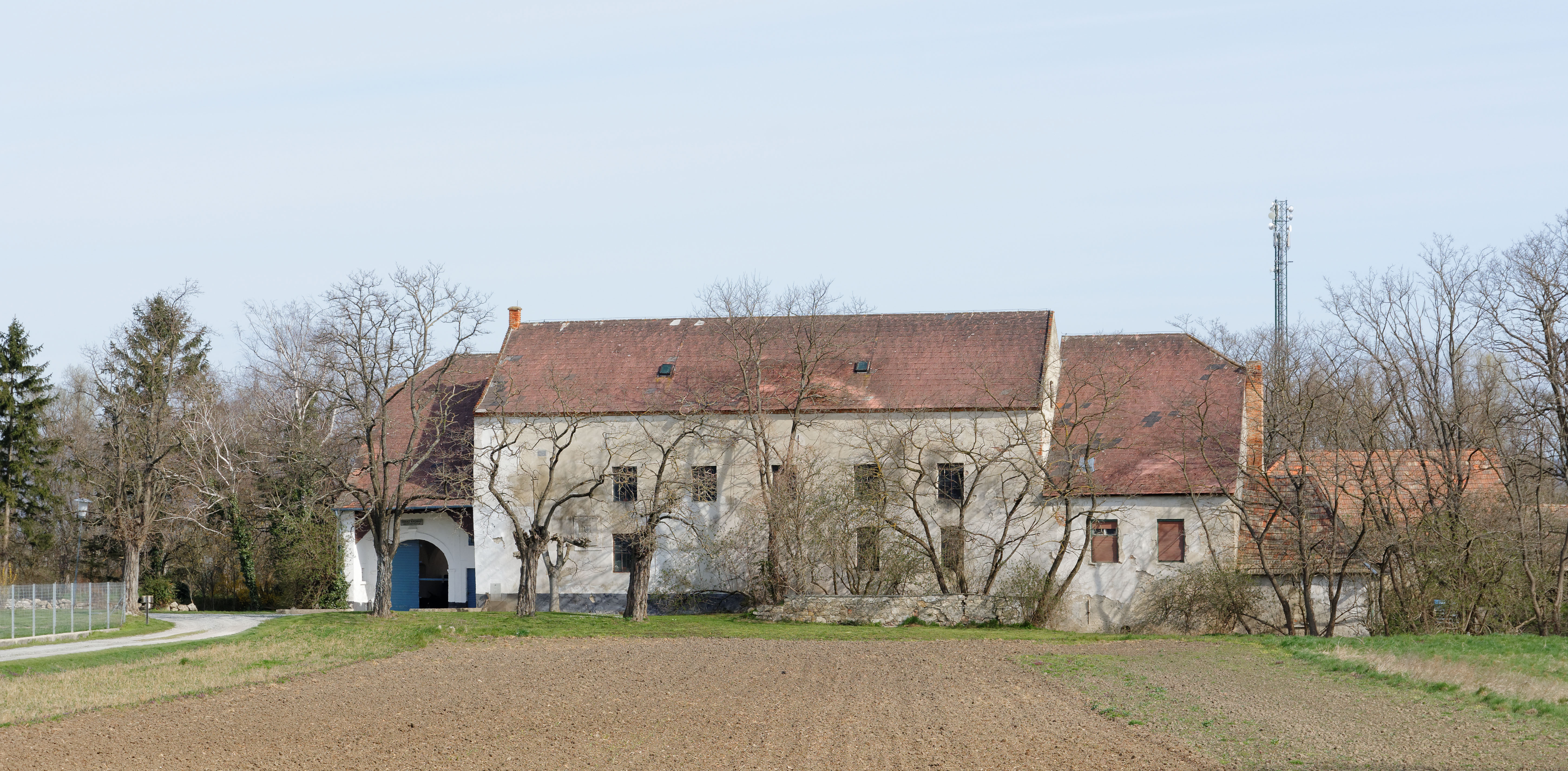 Former mill in Trausdorf an der Wulka, Burgenland, Austria